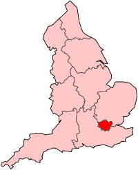 Locator map showing Greater London